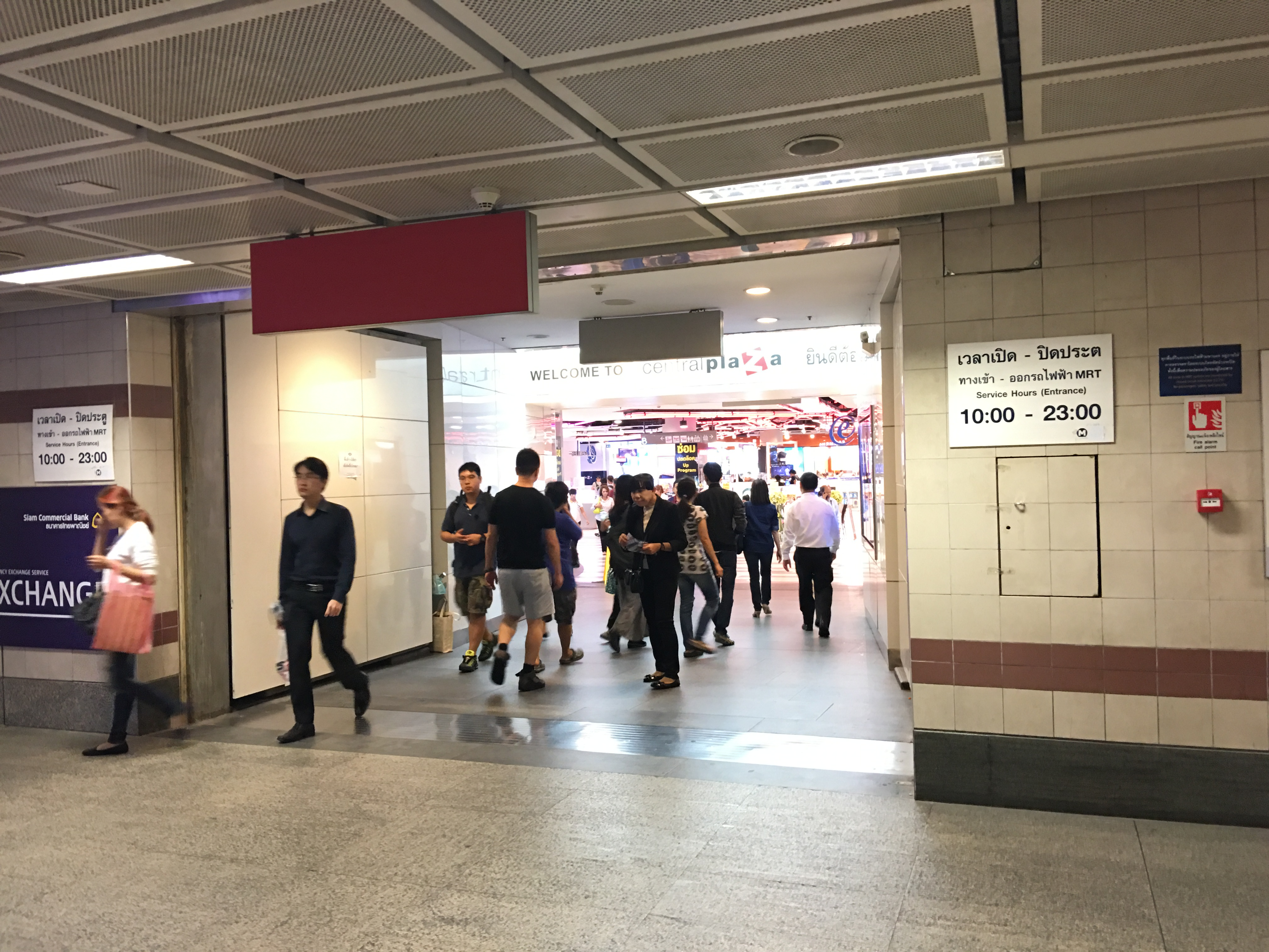 The exit connecting CentralPlaza Grand Phra Ram 9 (B1 floor) and Phra Ram 9 MRT Station